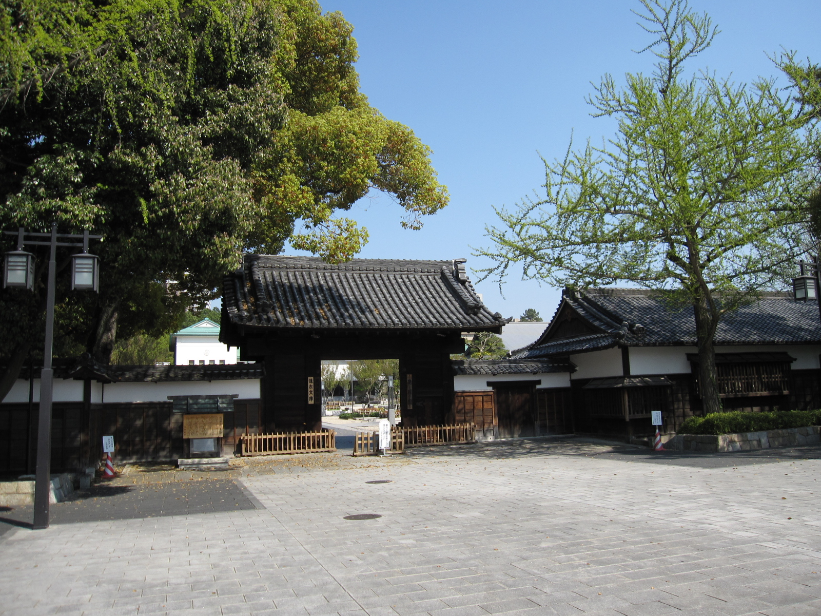 Black Gate (Kuro-mon), the main gate into the Ōzone Shimoyashiki compound in Ōzone in Higashi-ku in Nagoya, central Japan. The compound has the Tokugawa Art Museum, the Hōsa Library and the Tokugawa Garden.